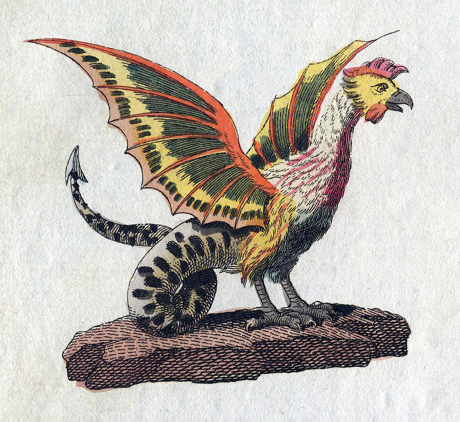 basilisk out of bertuch's fabelwesen